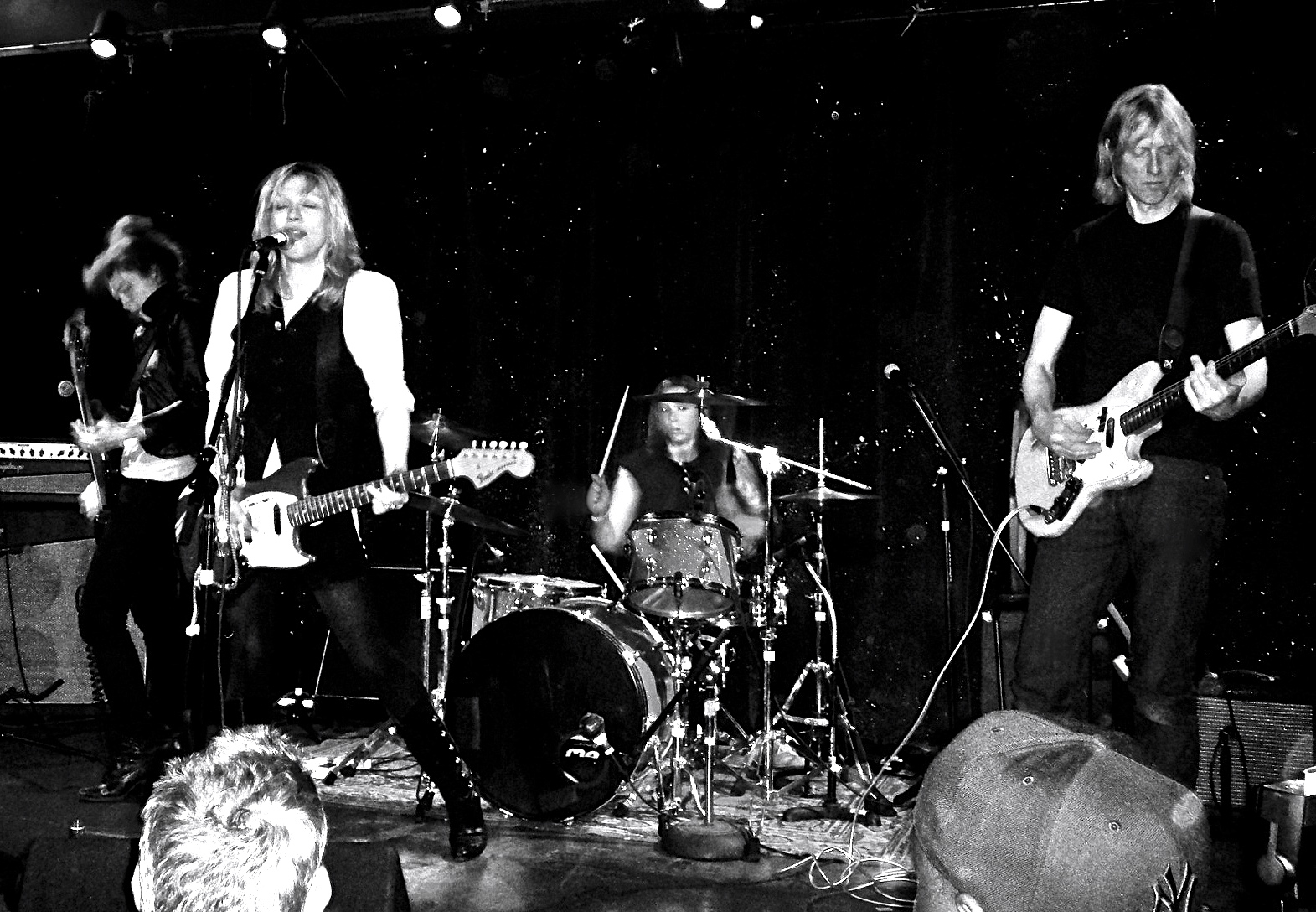 Hole reunion performance at the Public Assembly in New York City, April 13, 2012.